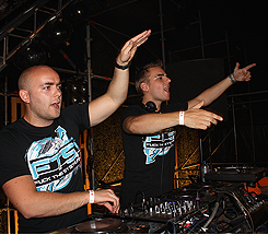 Wouter and Sjoerd Janssen performing